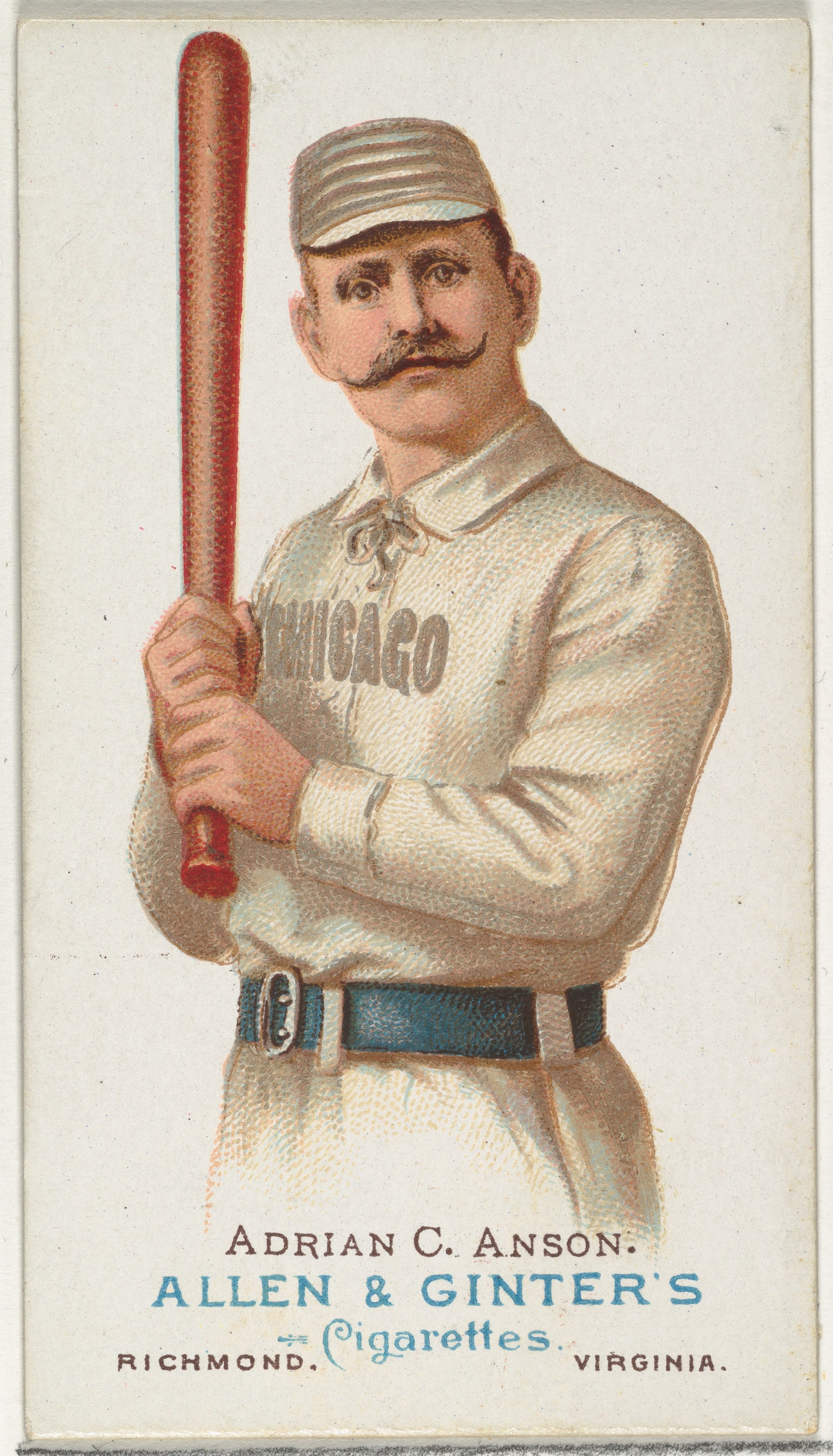 Baseball card; Prints/Ephemera